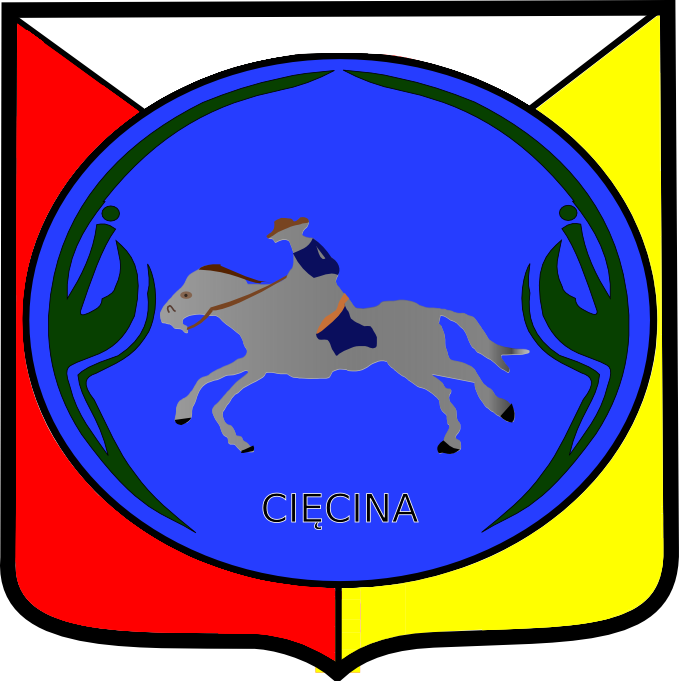 Coat of arms of Cięcina